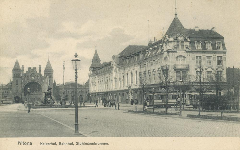 Tram of the HAC in front of the railway station Altona 1906